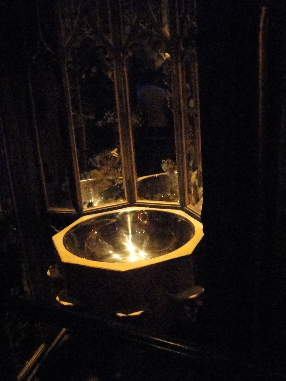 Wizarding World of Harry Potter - Pensieve in Dumbledore's office